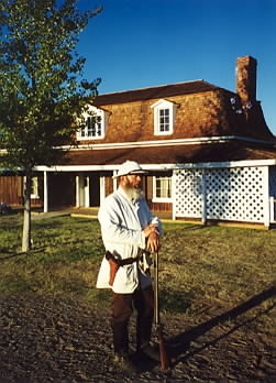 Fort Verde State Historic Park building and reenactor emulating General Crook. Taken at Ft. Verde by Elf